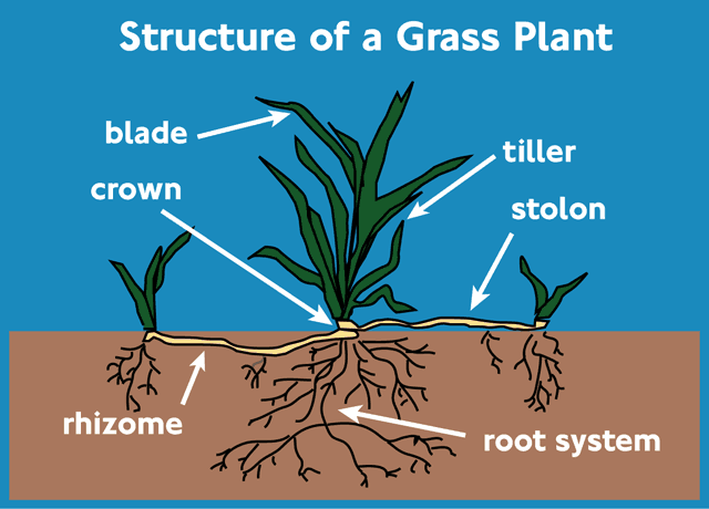 Grass plant structure diagram, drawn by myself using Adobe Illustrator CS.